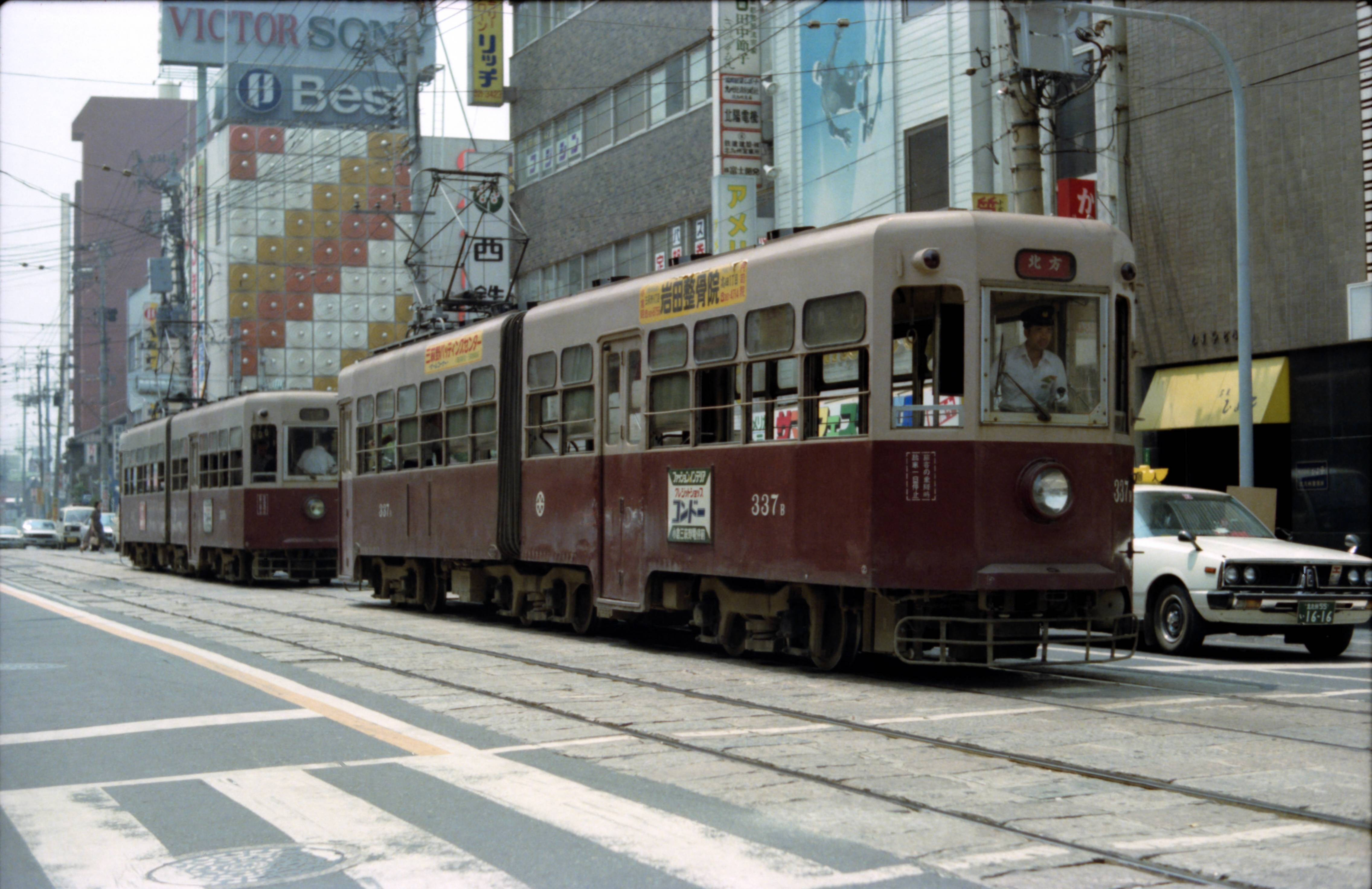 Nishi-Nippon-Railway Co.Ltd CityTram Kitagata-Line